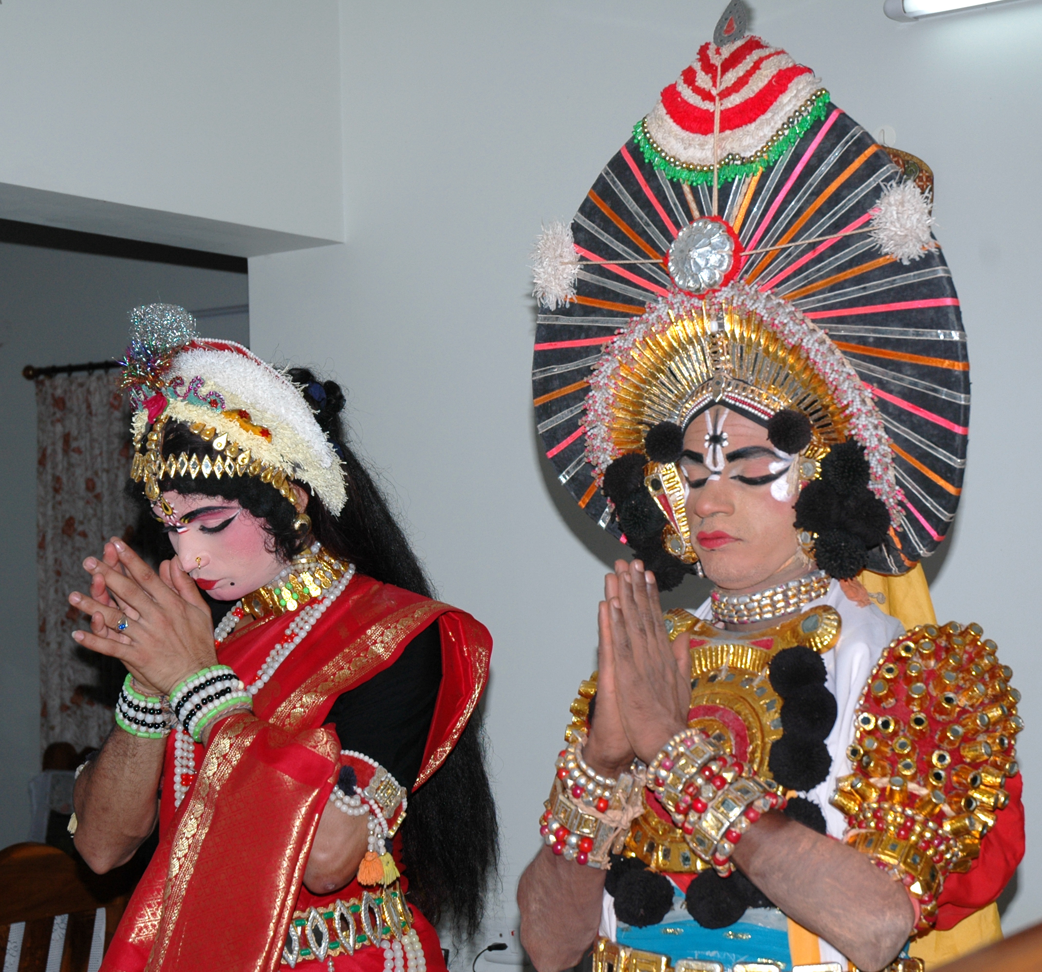 A traditional dance performance (by Chikkamela, an attempt to keep the old dance tradition which is found in south western part of Karnataka state (Udupi, Dakshina kannada and uttara kannda districts.))